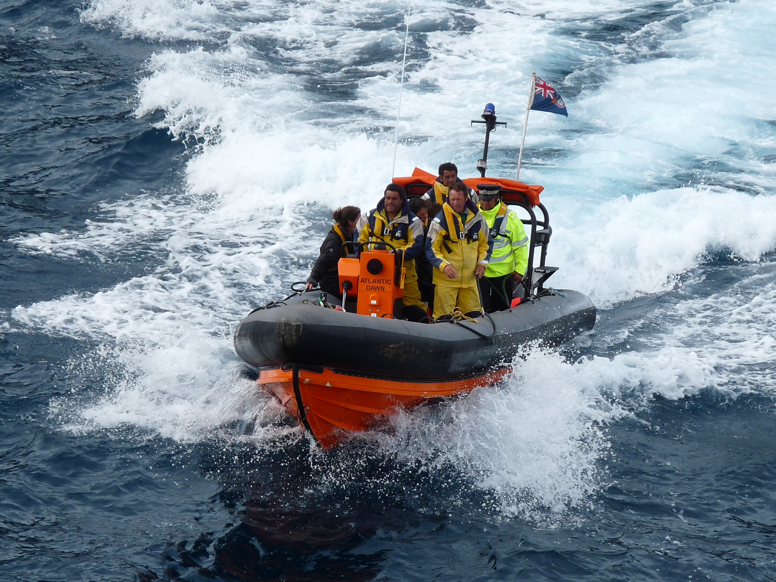 Tourists arrive at Tristan da Cunha by boat